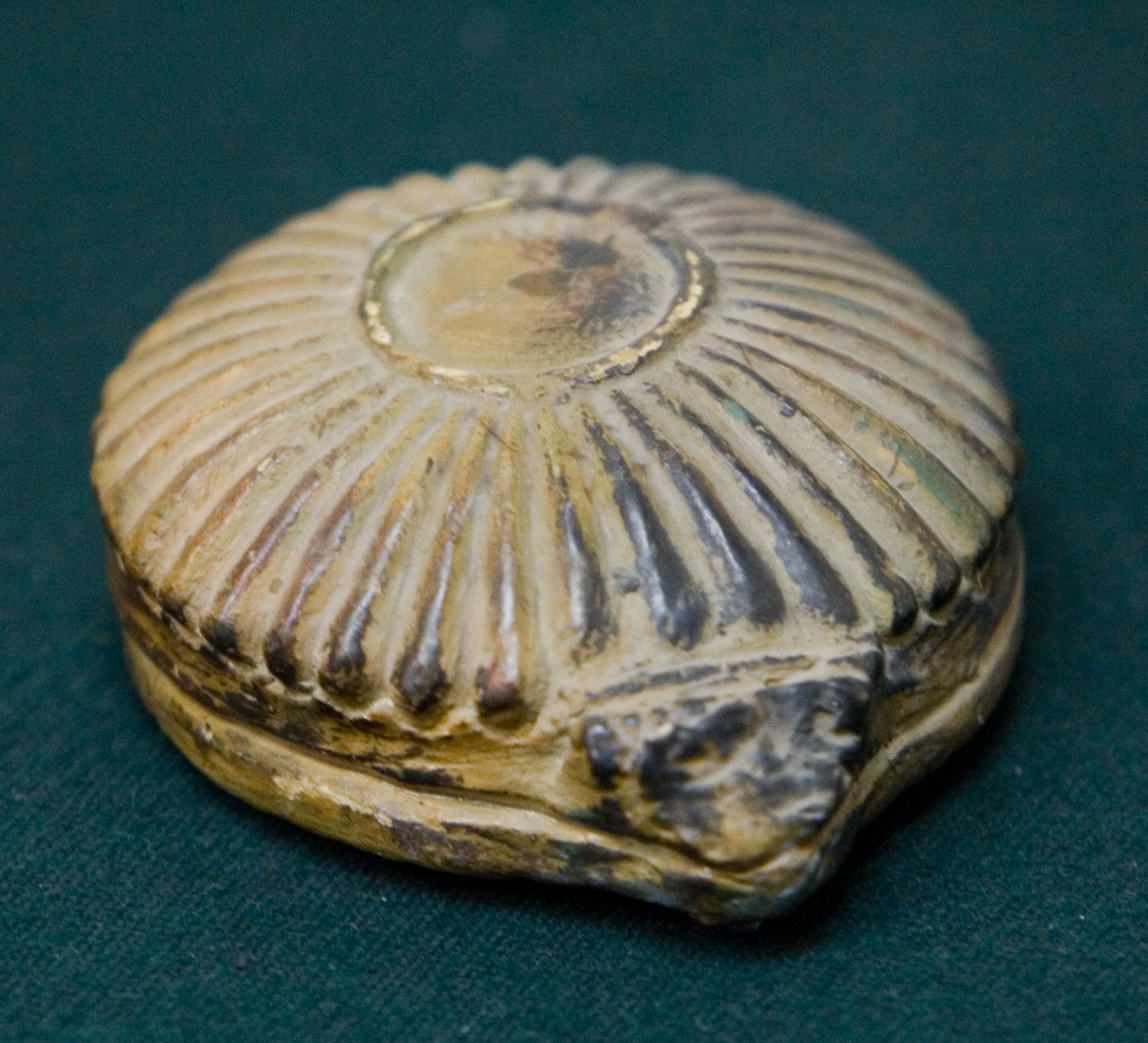 Stone Box (found during Karmir-Blur excavations)